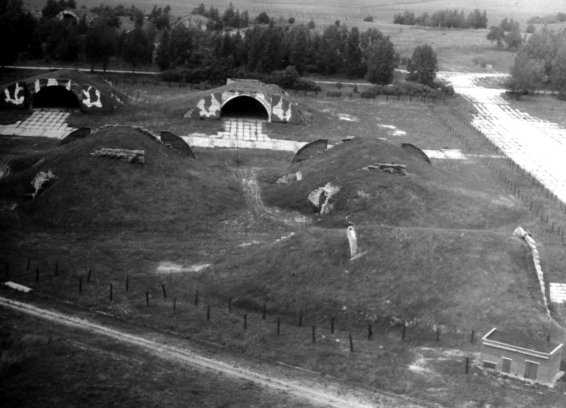 Zokniai in Šiauliai, Lithuania